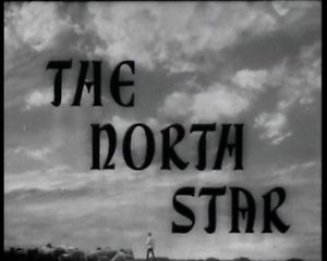 Screenshot from US movie "The North Star". RKO Pictures, 1943 year.